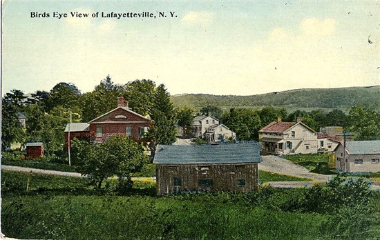 A 1918 Postcard of the hamlet of Lafayetteville in the town of Milan, Dutchess County New York.